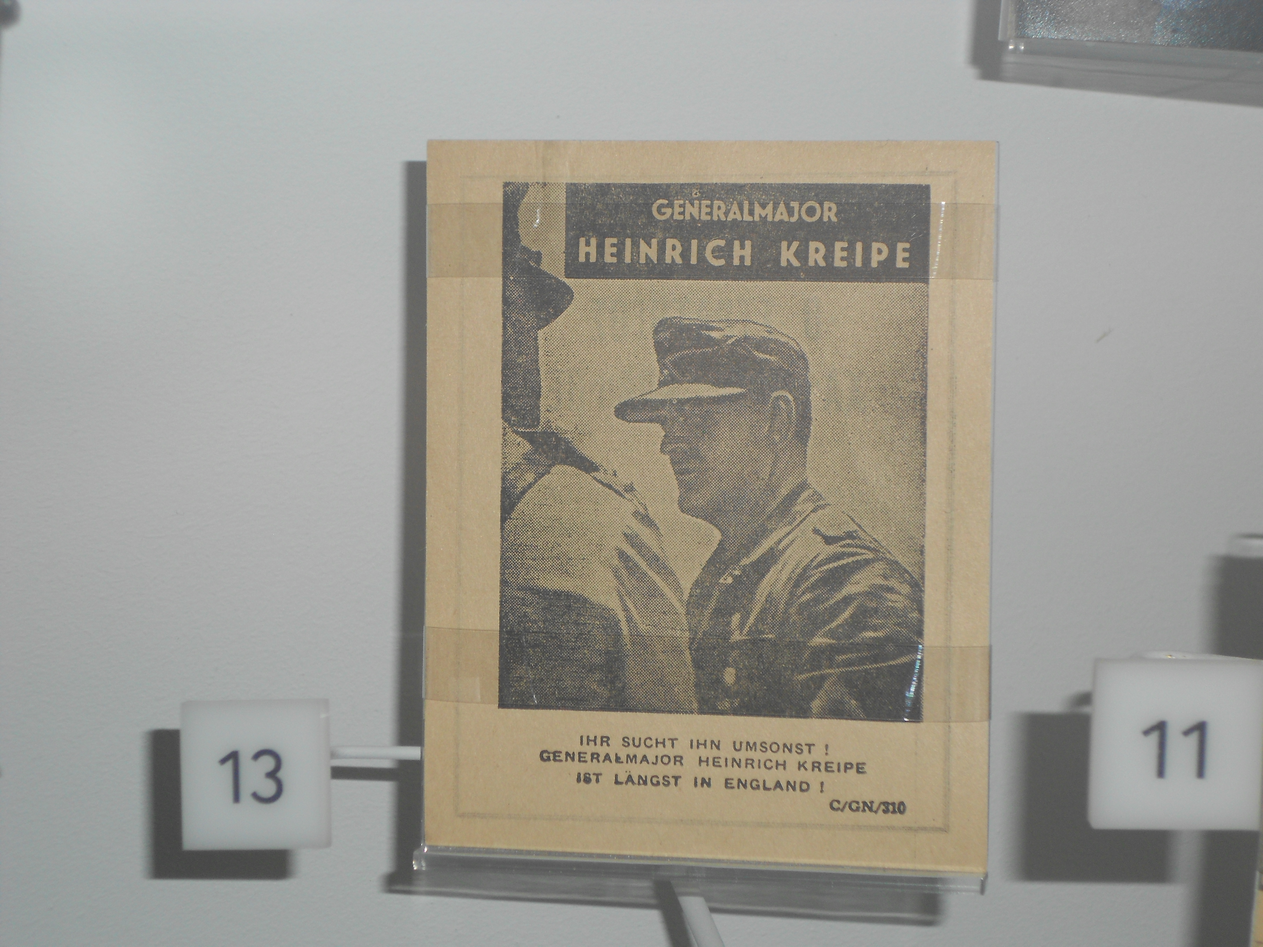 British propaganda leaflet dropped on Crete following the kidnapping of major general Heinrich Kreipe, IWM.